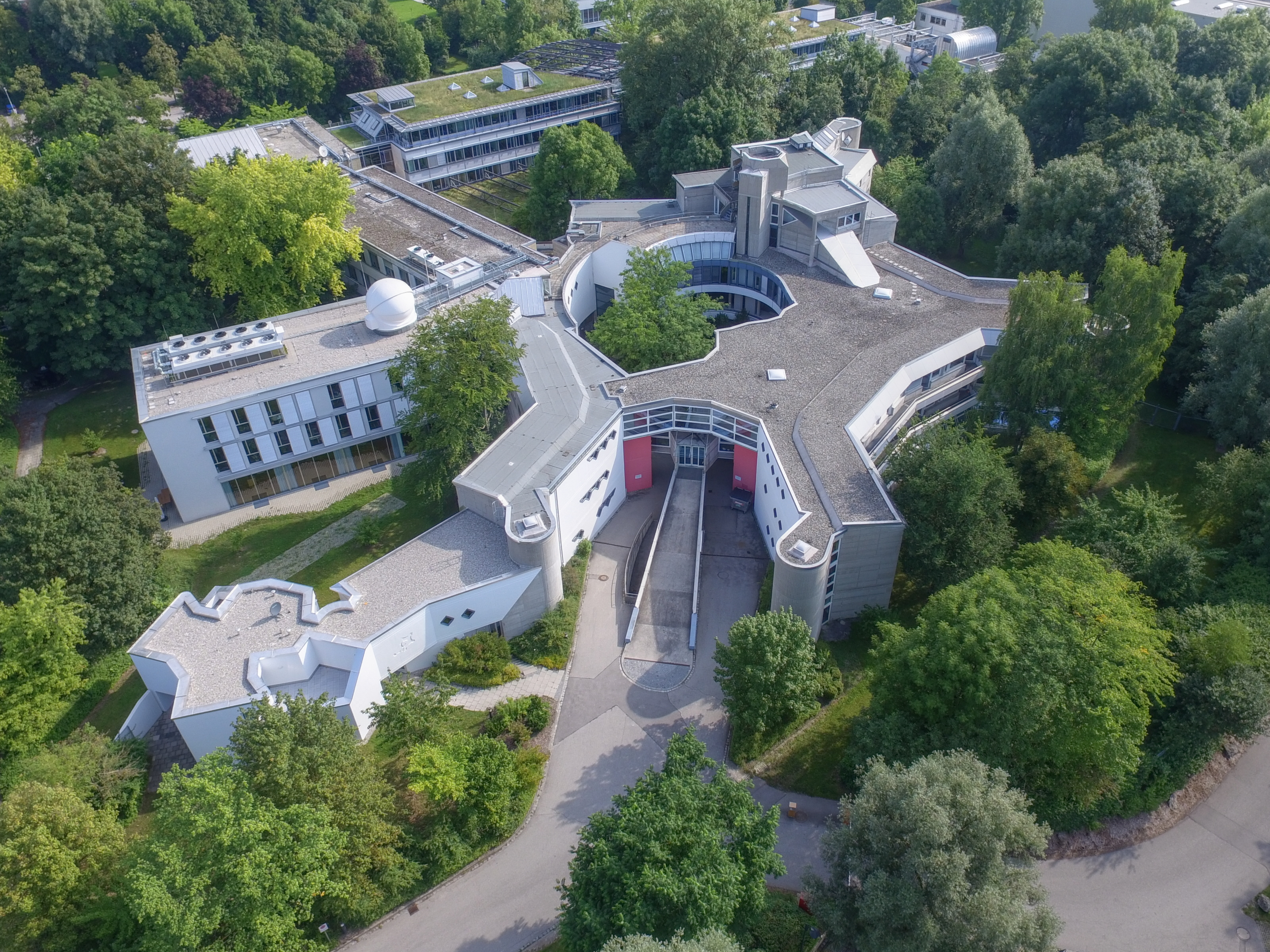 Max Planck Institute for Astrophysics, aerial view